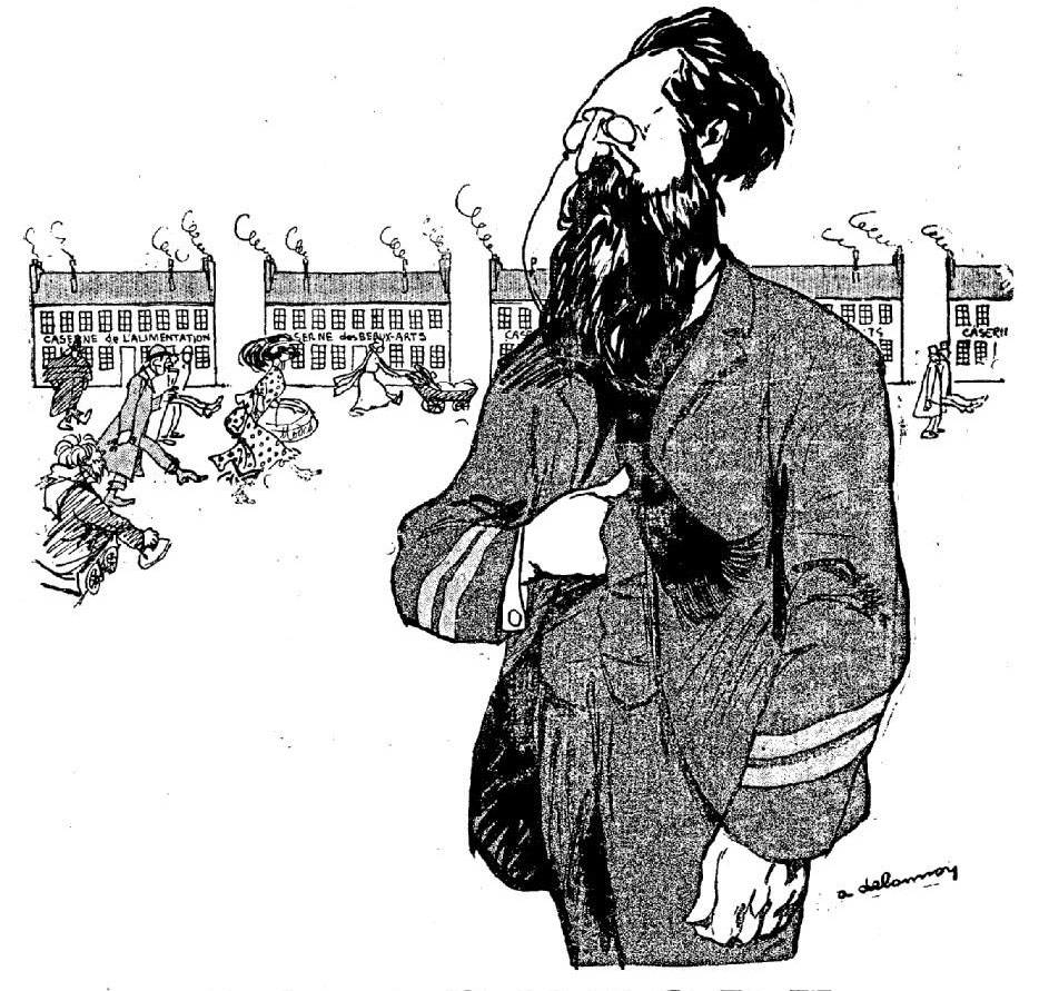 Caricature de Jules Guesde dans Les Hommes du jour